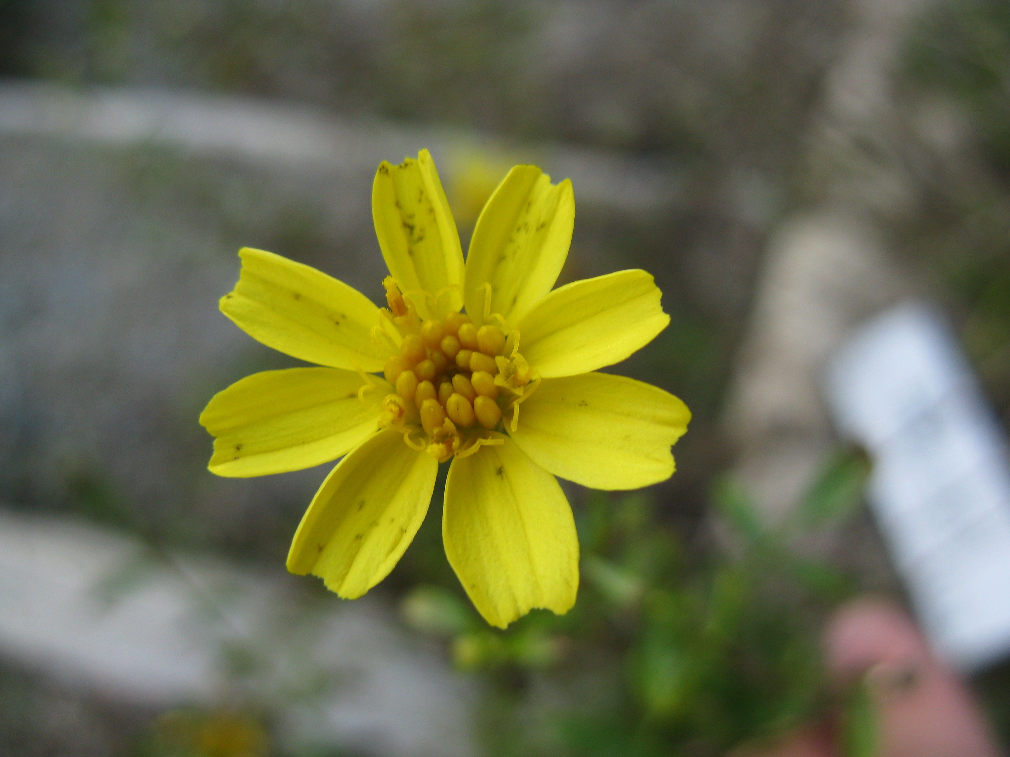 Tagetes lemmonii Place:Osaka Prefectural Flower Garden,Osaka,Japan